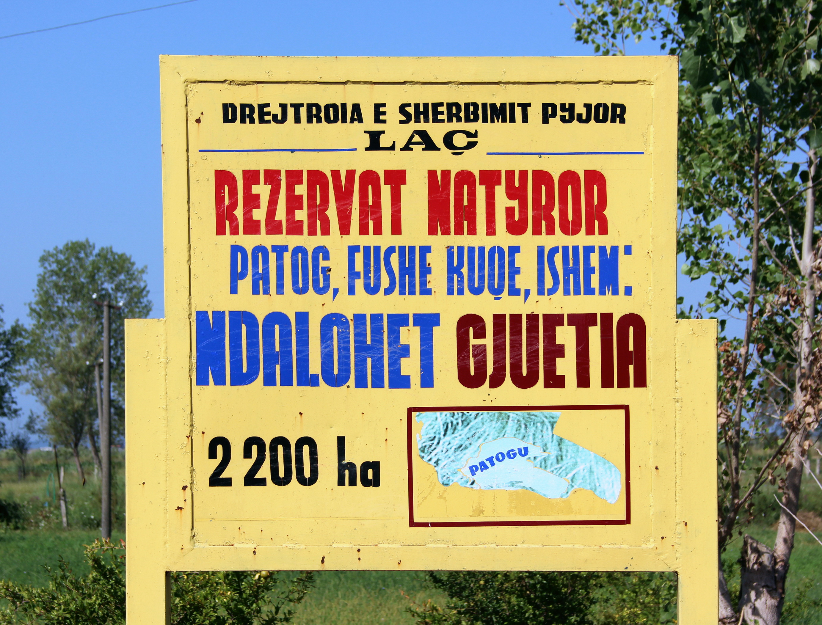 Sign on natural park Patok in Albania